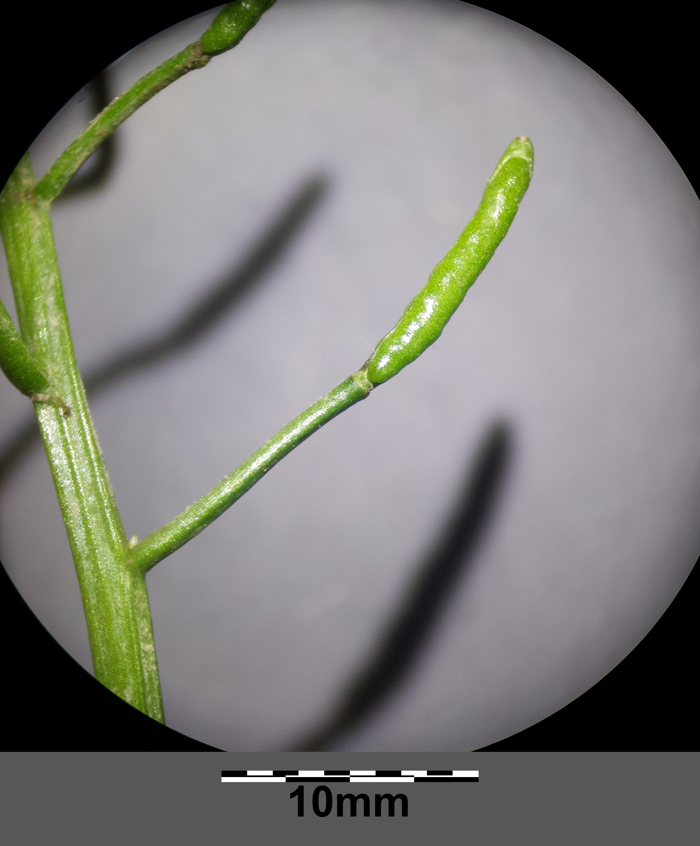 Silique Taxonym: Nasturtium officinale ss Fischer et al. EfÖLS 2008 ISBN 978-3-85474-187-9 Location: Senningbach next to Hatzenbach, district Korneuburg, Lower Austria - 180 m a.s.l. Habitat: stream